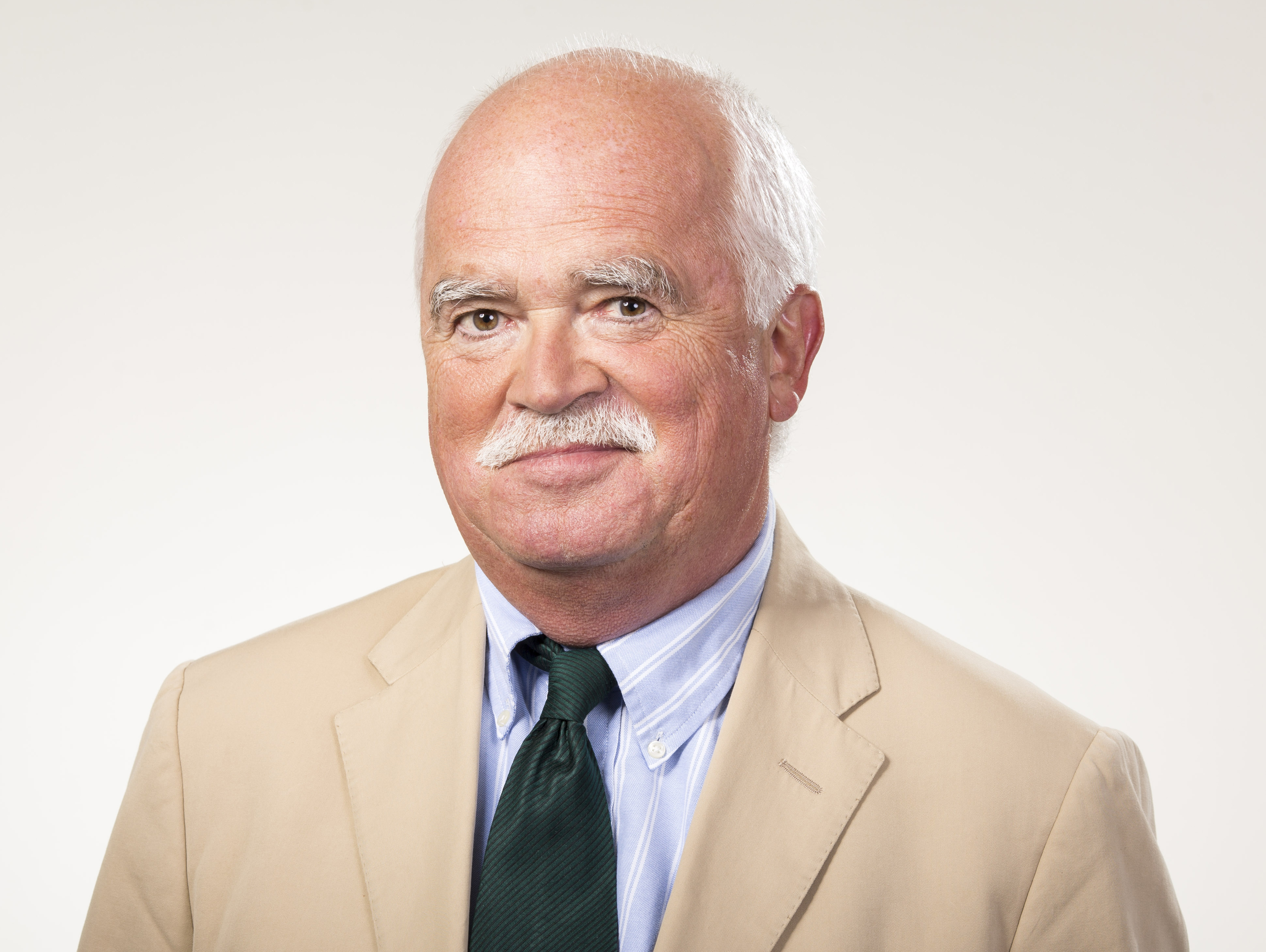 The German member of parliament and lawyer Peter Gauweiler